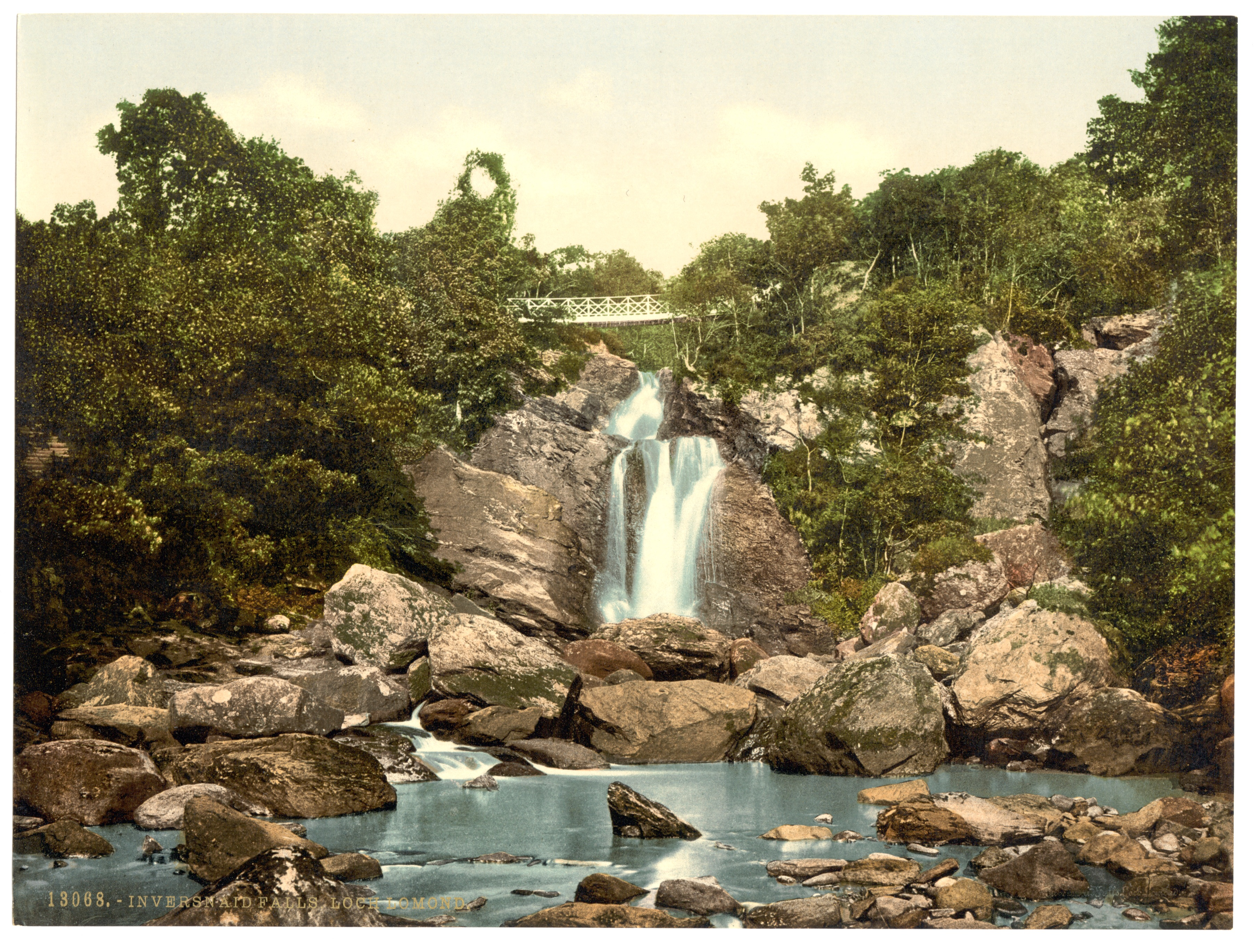 Title from the Detroit Publishing Co., catalogue J-foreign section. Detroit, Mich. : Detroit Photographic Company, 1905.; More information about the Photochrom Print Collection is available at Forms part of: Views of landscape and architecture in Scotland in the Photochrom print collection.; Print no. "13068".